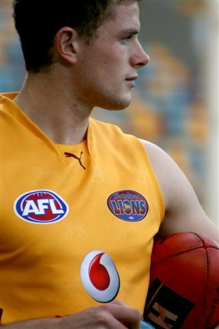 Pierce Hanley at a Brisbane Lions public training session in 2007. The Gabba, Brisbane, Australia.